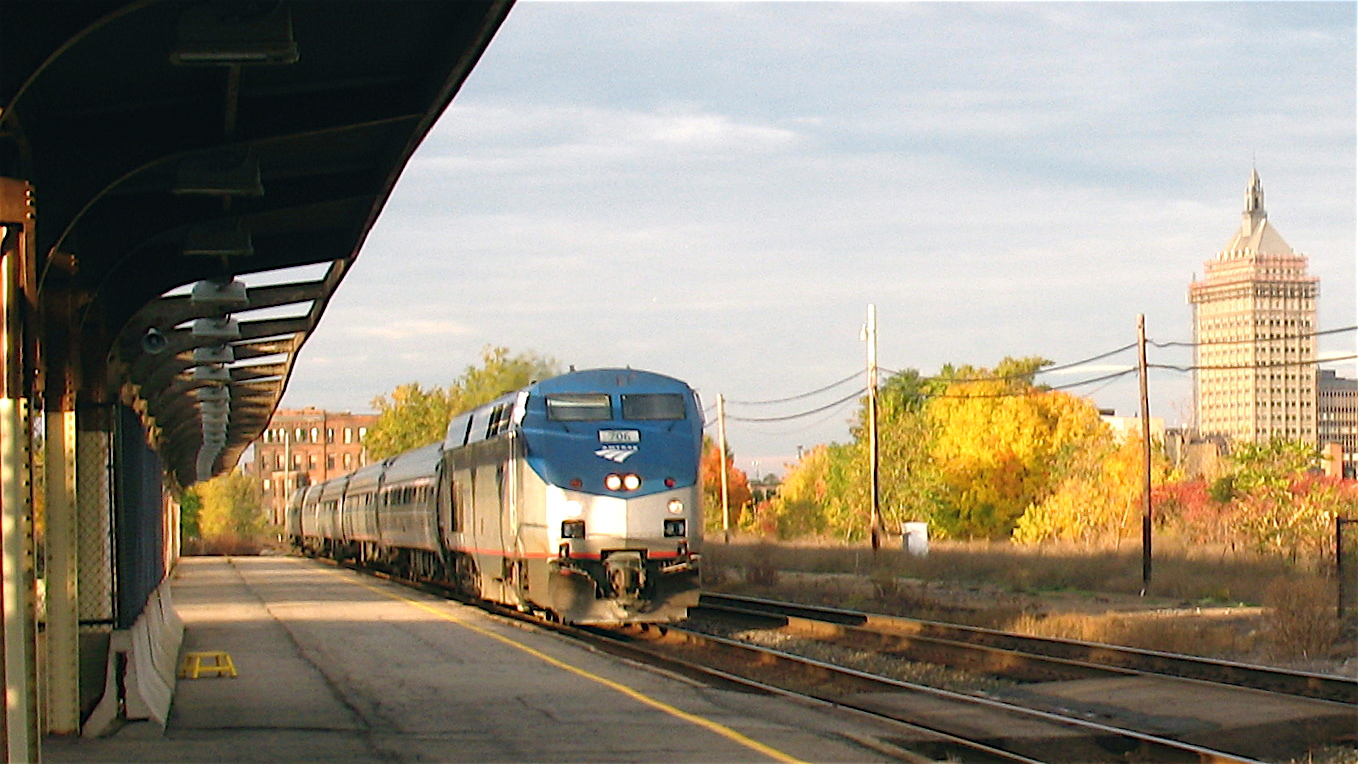 The Amtrak Number 284 Empire Service arriving at Rochester.